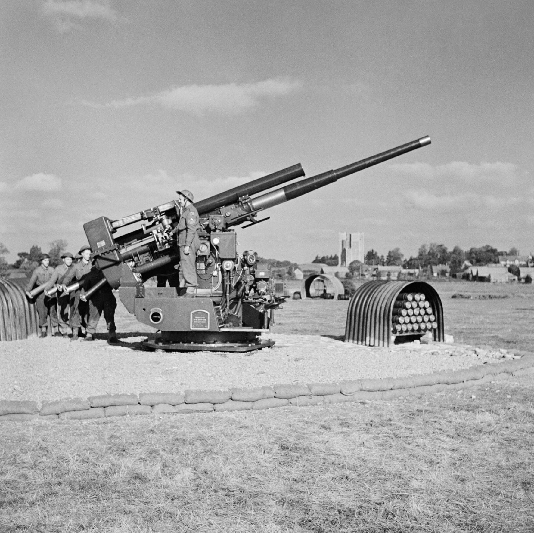 The British Army in the United Kingdom 1939-45 3.7-inch gun of 127th Heavy Anti-Aircraft Regiment, Southwold, Suffolk, 9 October 1944.